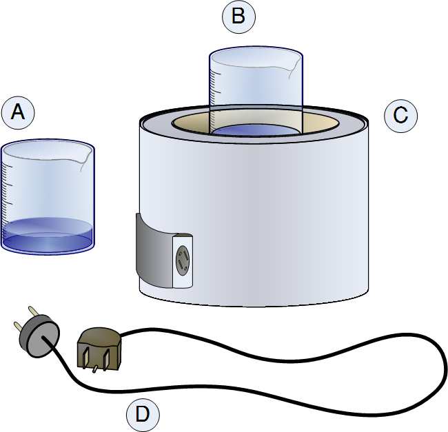 A diagram of a "paint-can"-type heating mantle. (A)=beaker outside the mantle; (B)=beaker within the basket of the mantle; (C)=the main body of the heating mantle; and (D)=the power cord for connecting the mantle to a source of AC electricity (usually a variac).